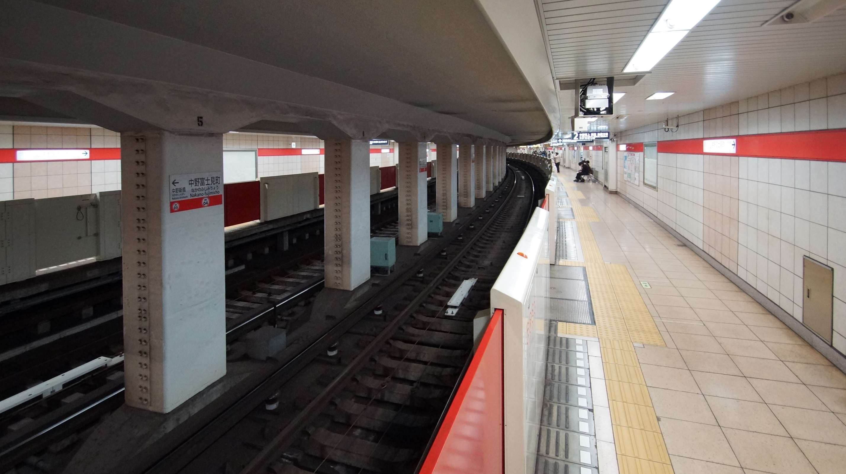 Platform 2 at Nakano-fujimicho Station on the Tokyo Metro Marunouchi Line Honancho Branch